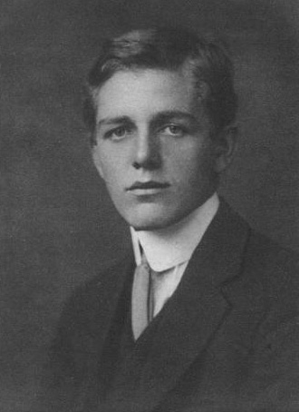 Francis Walter Stafford McLaren (1886-1917), MP, in a photograph published following his death in the First World War.